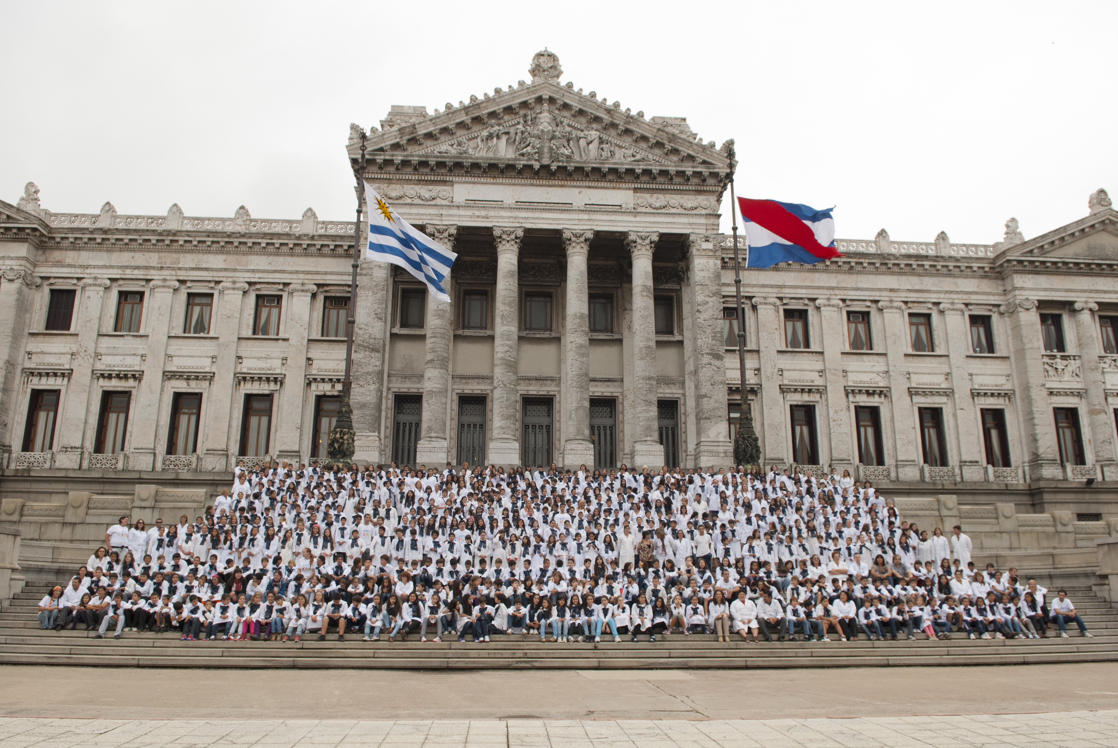 On April 3, 2011 the Opening Ceremony of the XIII Year Celebrations was held in Uruguay. The event was part of the activities commemorating the Bicentennial of Uruguay, which took place during that year. A ceremony that took place in Montevideo was attended by more than 500 children from 19 schools across the country. This photograph was taken by Karin von Bergen Porley of the Bicentennial Secretariat, under the Bicentennial Commission, which is made ​​up of authorities of all political parties, from different ministries and agencies of Uruguay.